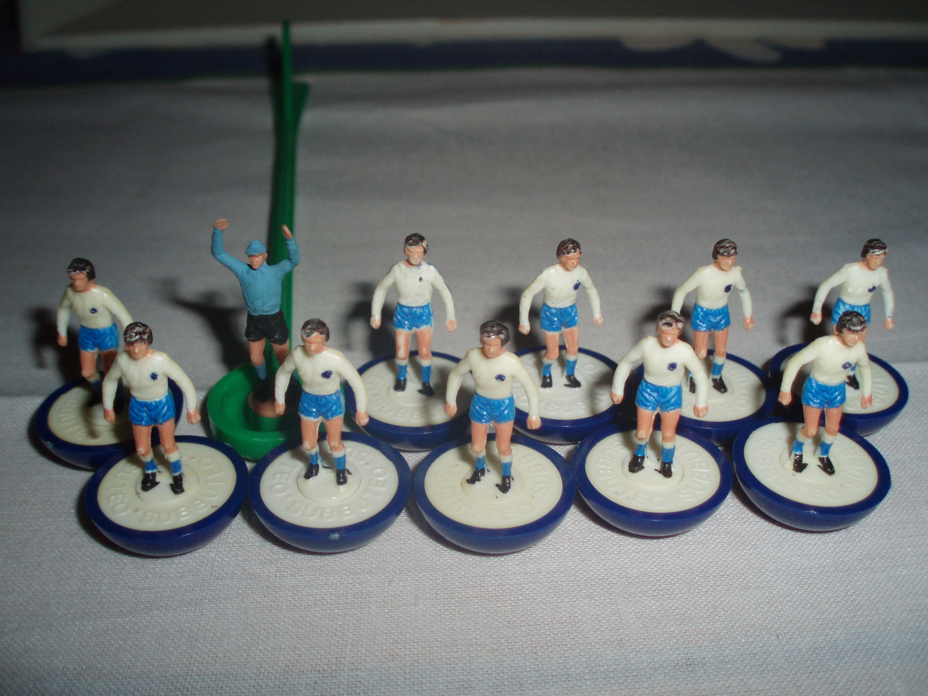 Greece national football team Subbuteo